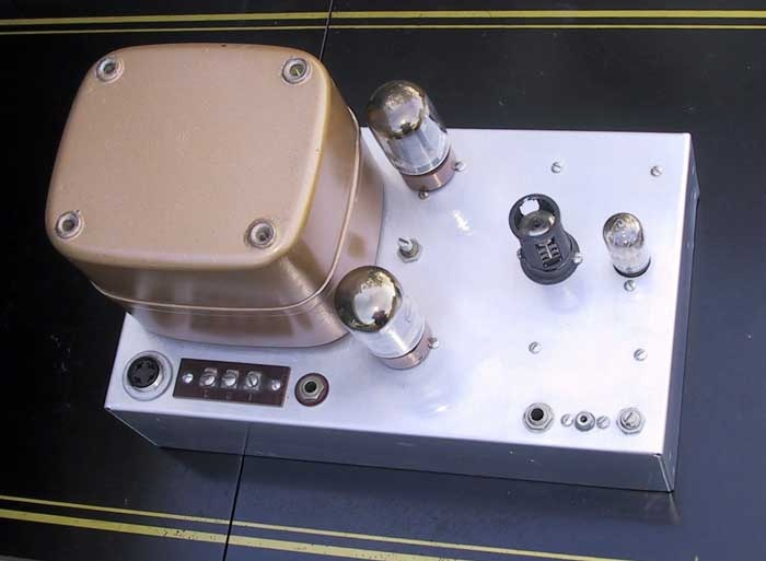 Will2